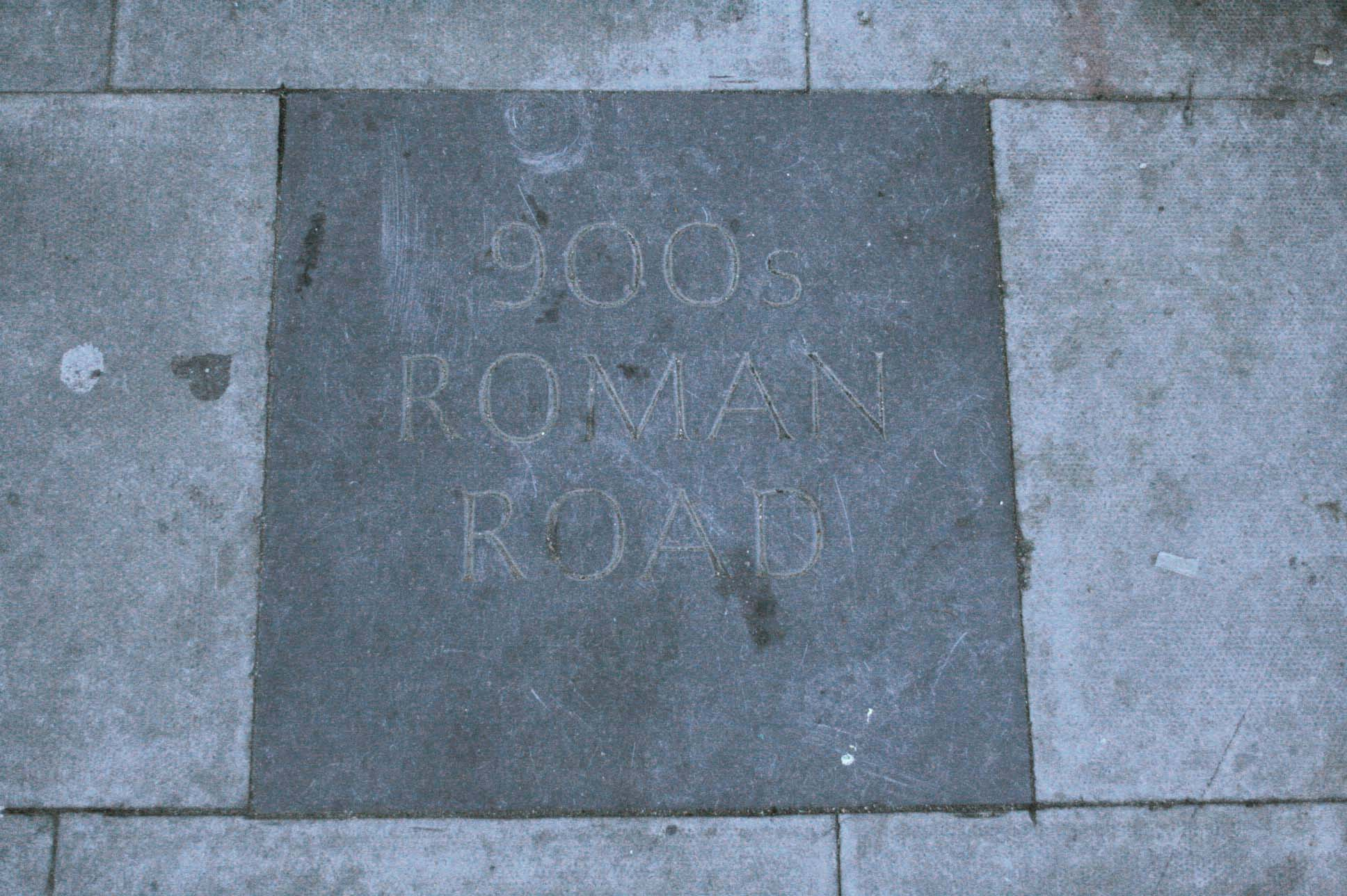 A paving stone on Kilburn High Road commemorating the route of Watling Street through London, UK.